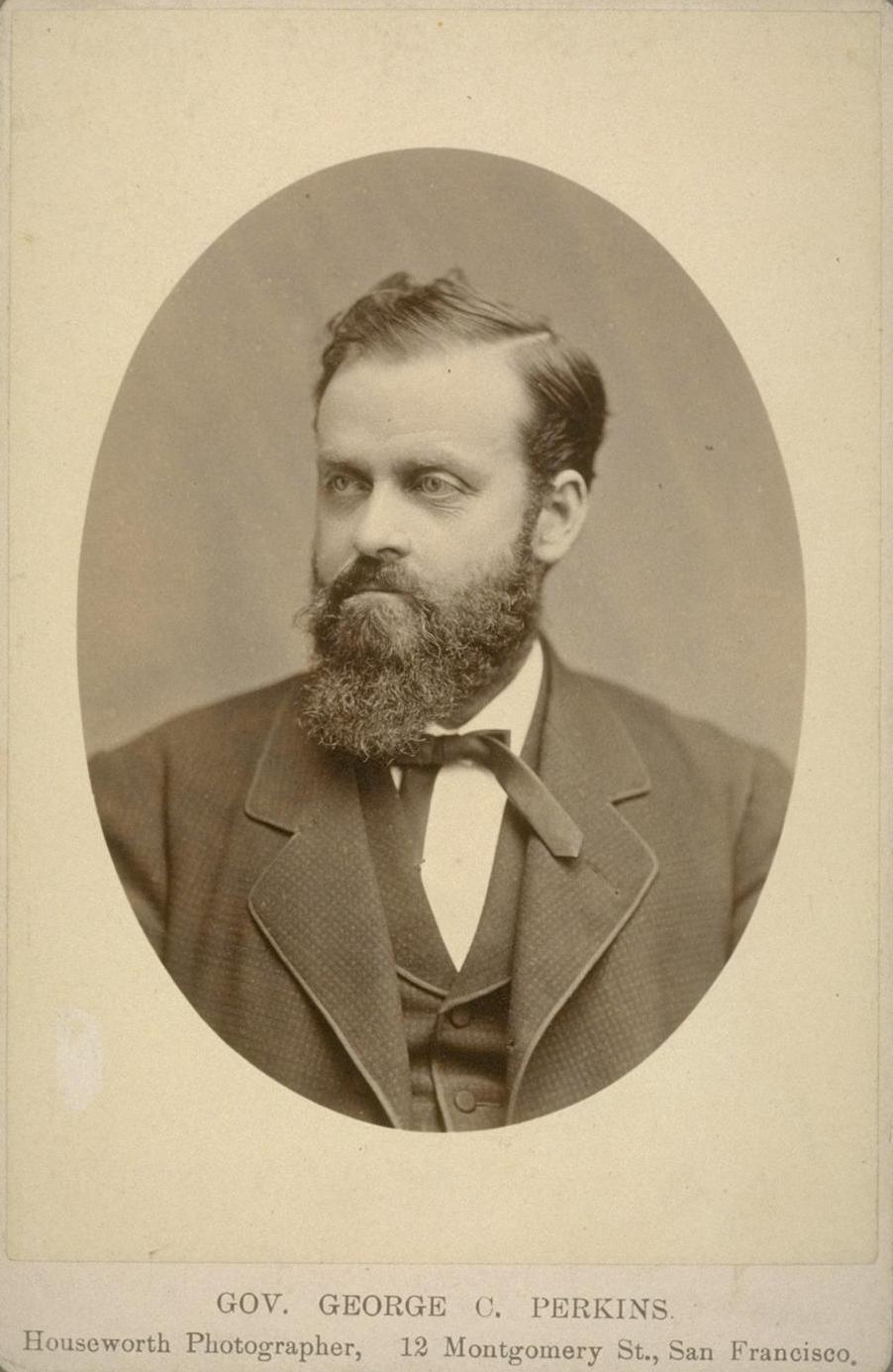 George Clement Perkins, 14th Governor of California and later U.S. Senator for California